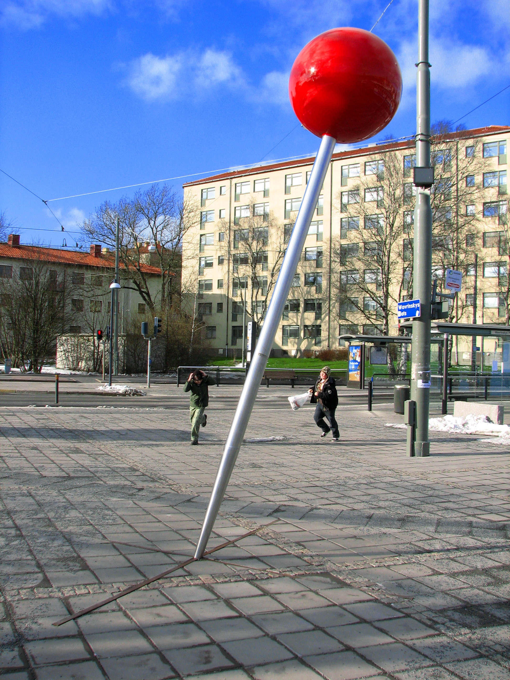 The sculpture "Här" (here) by Ebba Matz, placed at Wavrinskys plats in Göteborg, Sweden.